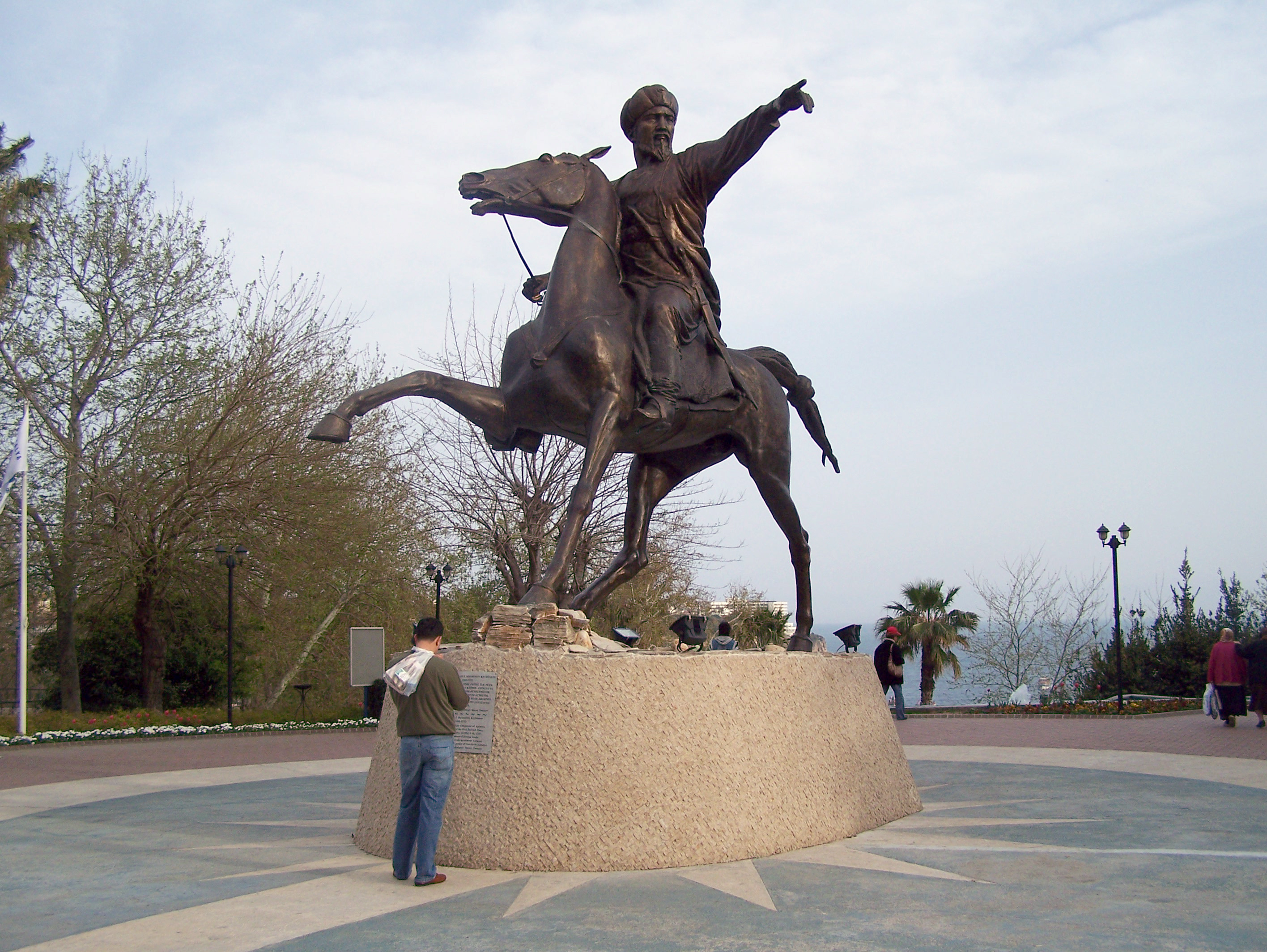 Statue of I. Gıyaseddin Keyhüsrev (Kaykhusraw I), made by Meret Öwezov in 2004 (or 2007?). Placed at Yavuz Özcan Parkı in Antalya alongside the Konyaaltı Caddesi at the opposite of Anafartalar Caddesi.